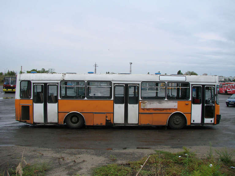 Chavdar 120 bus (reg. A 2656 BH) in Burgas, Bulgaria. Built 1996, Burgasbus (Бургасбуc ЕООД) operator.